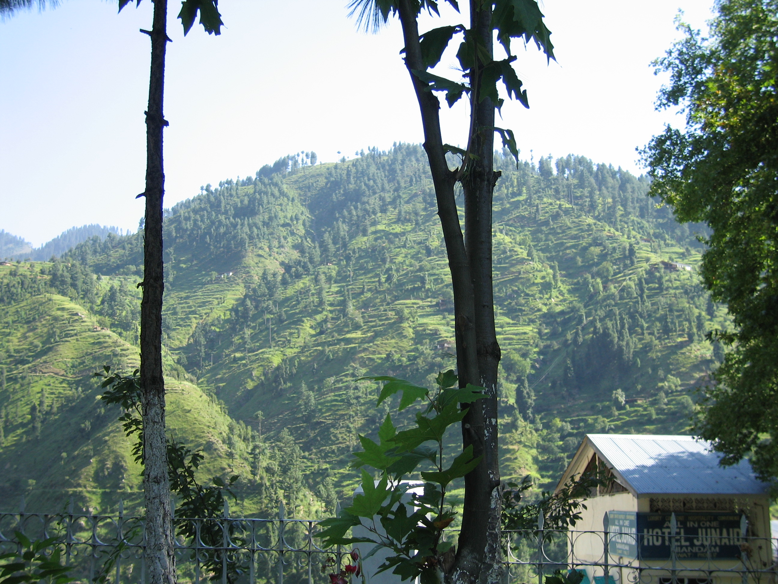 Miandam in the Swat Valley of Khyber Pakhtunkhwa